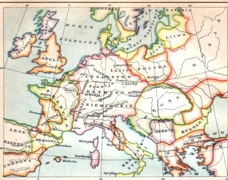 Europe in the 12th century